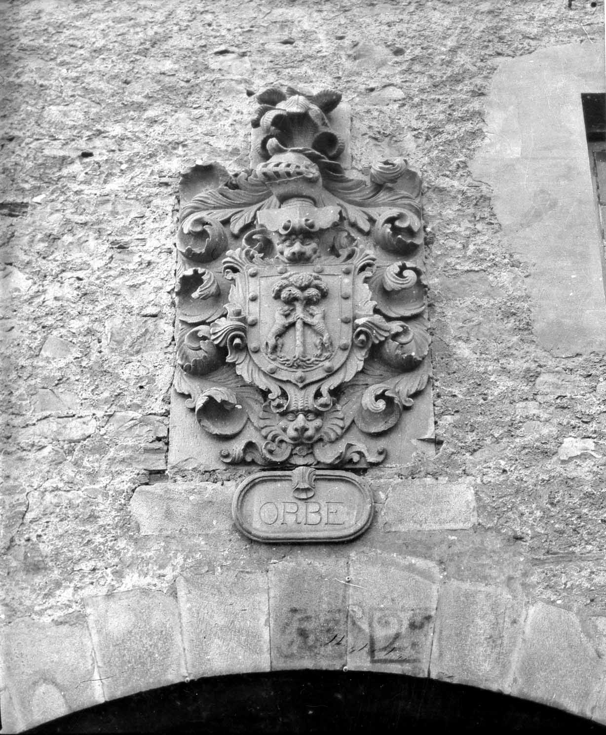 The armarria on the facade of the Orbe baserri in Angiozar.